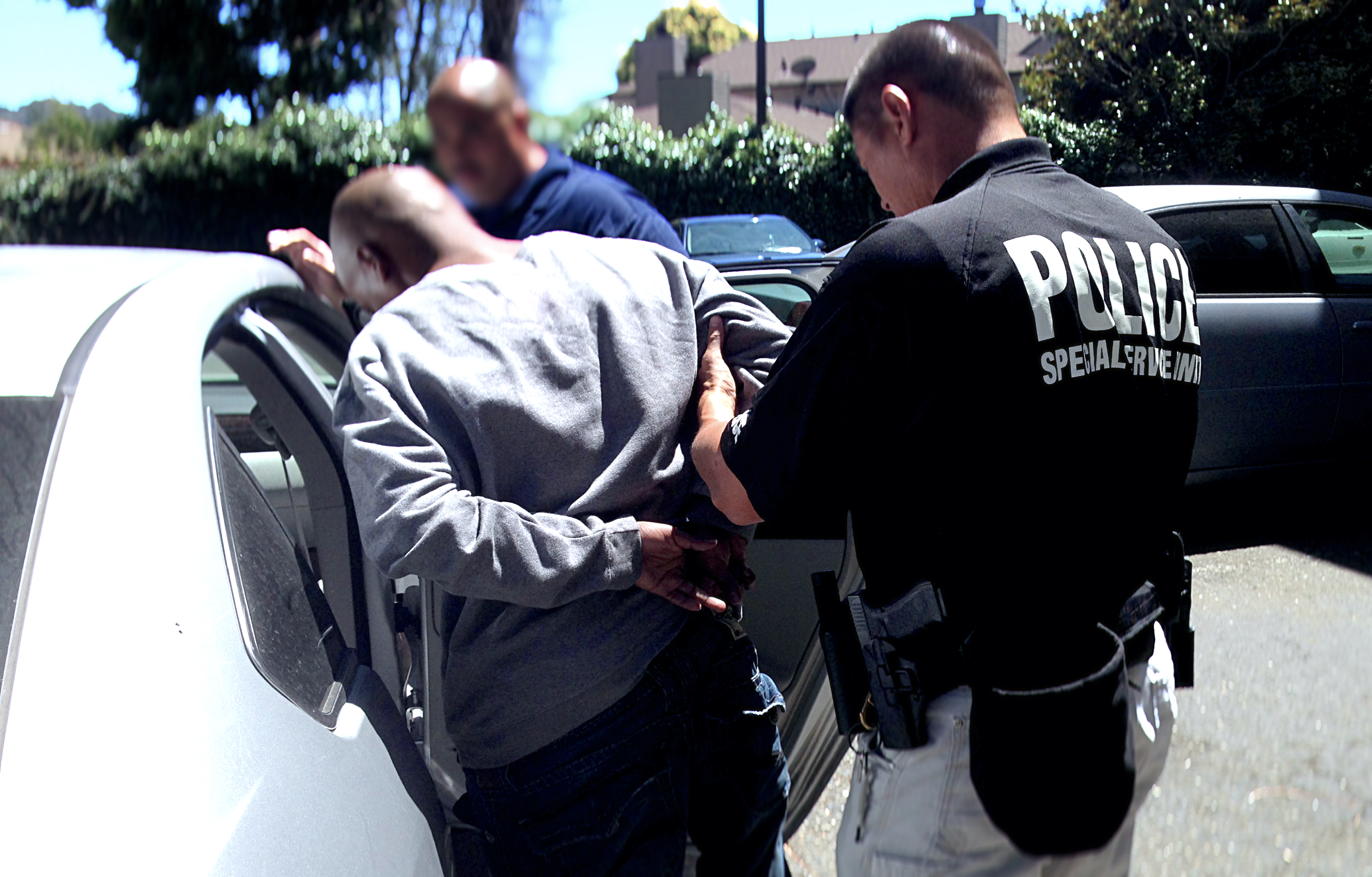 Special agents of the California Department of Corrections and Rehabilitation's Special Service Unit (SSU) making an arrest on the streets of California.